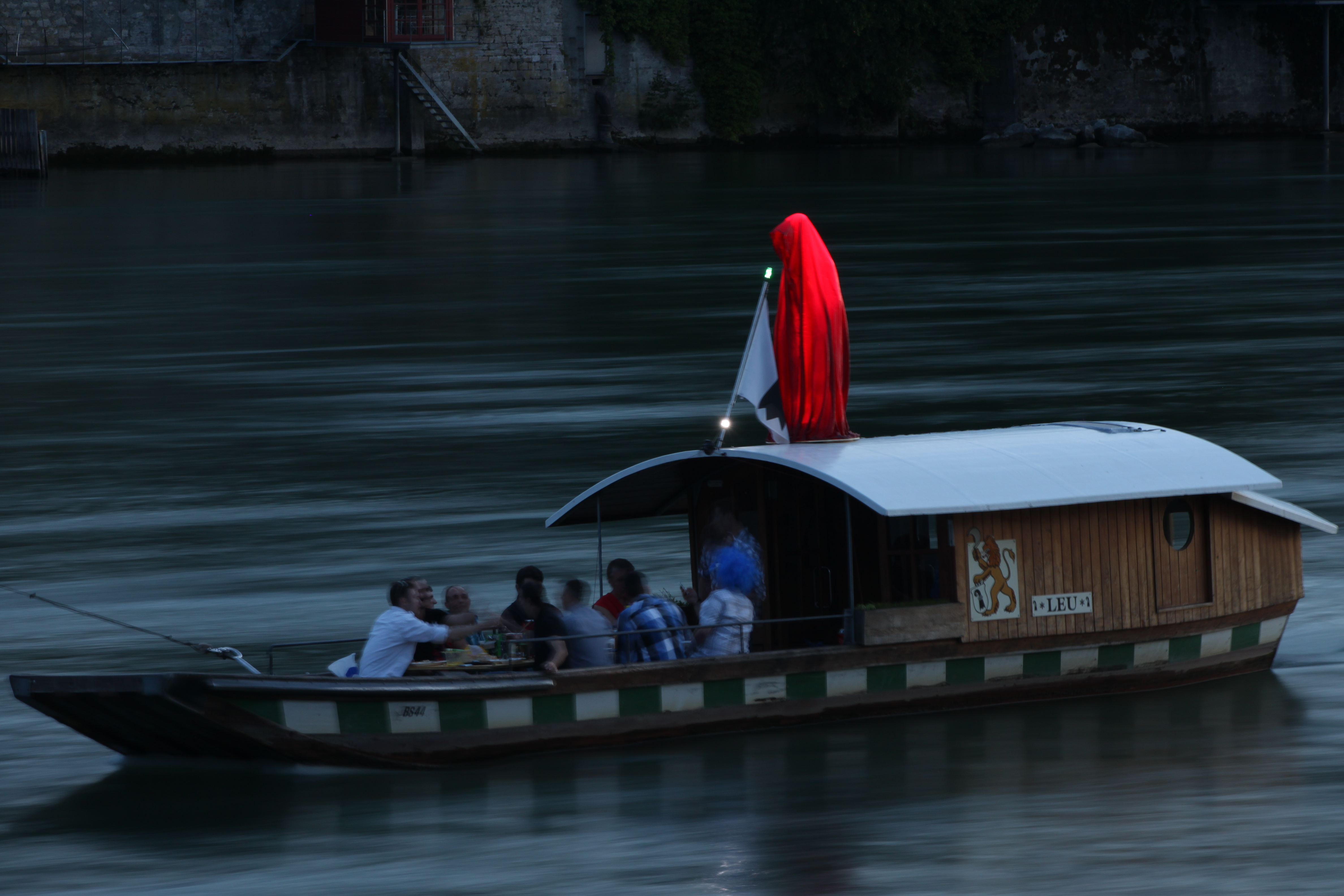 Public ArtBasel Parcours project by Manfred Kielnhofer. Leu Muenster Faehre, ferryman Fährmann, Fährimaa, Time guards contemporary art sculpture